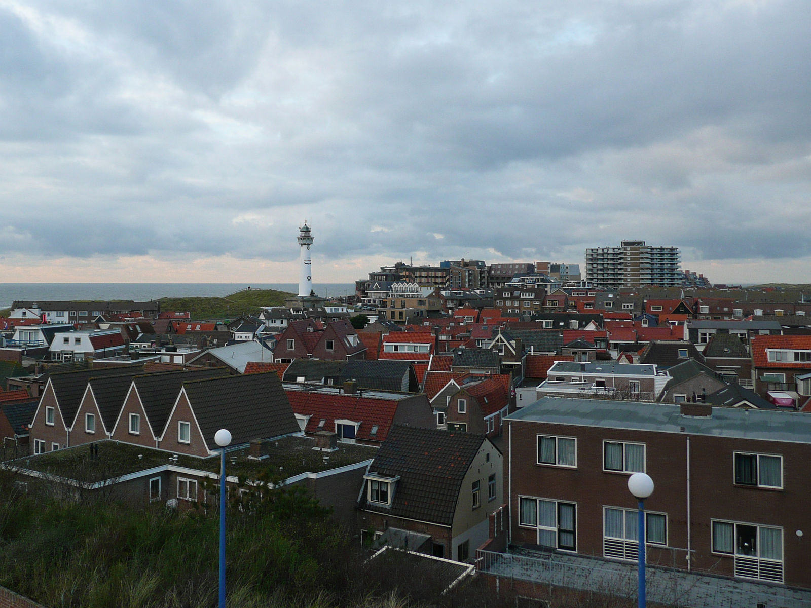 Egmond aan Zee, Netherlands - Lighthouse